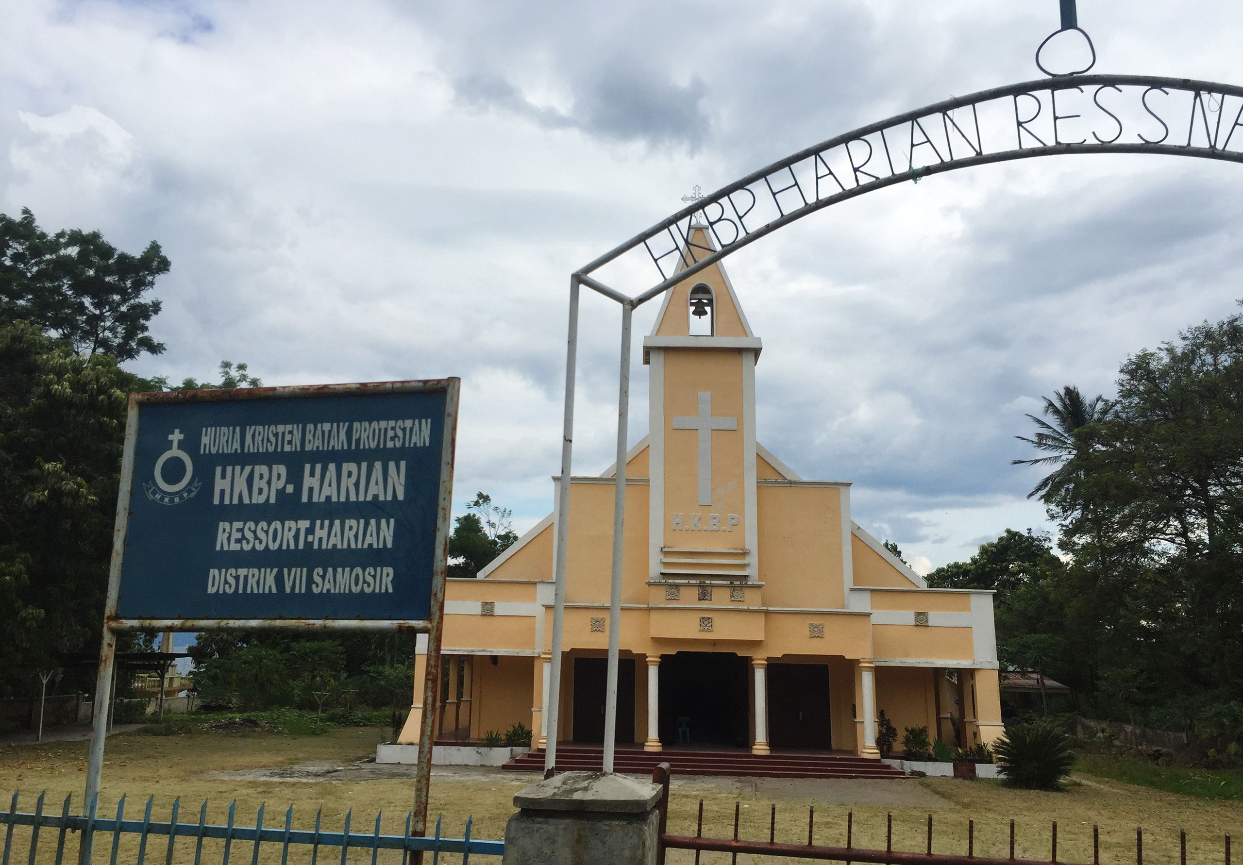 HKBP Harian, Church in Nainggolan, Samosir